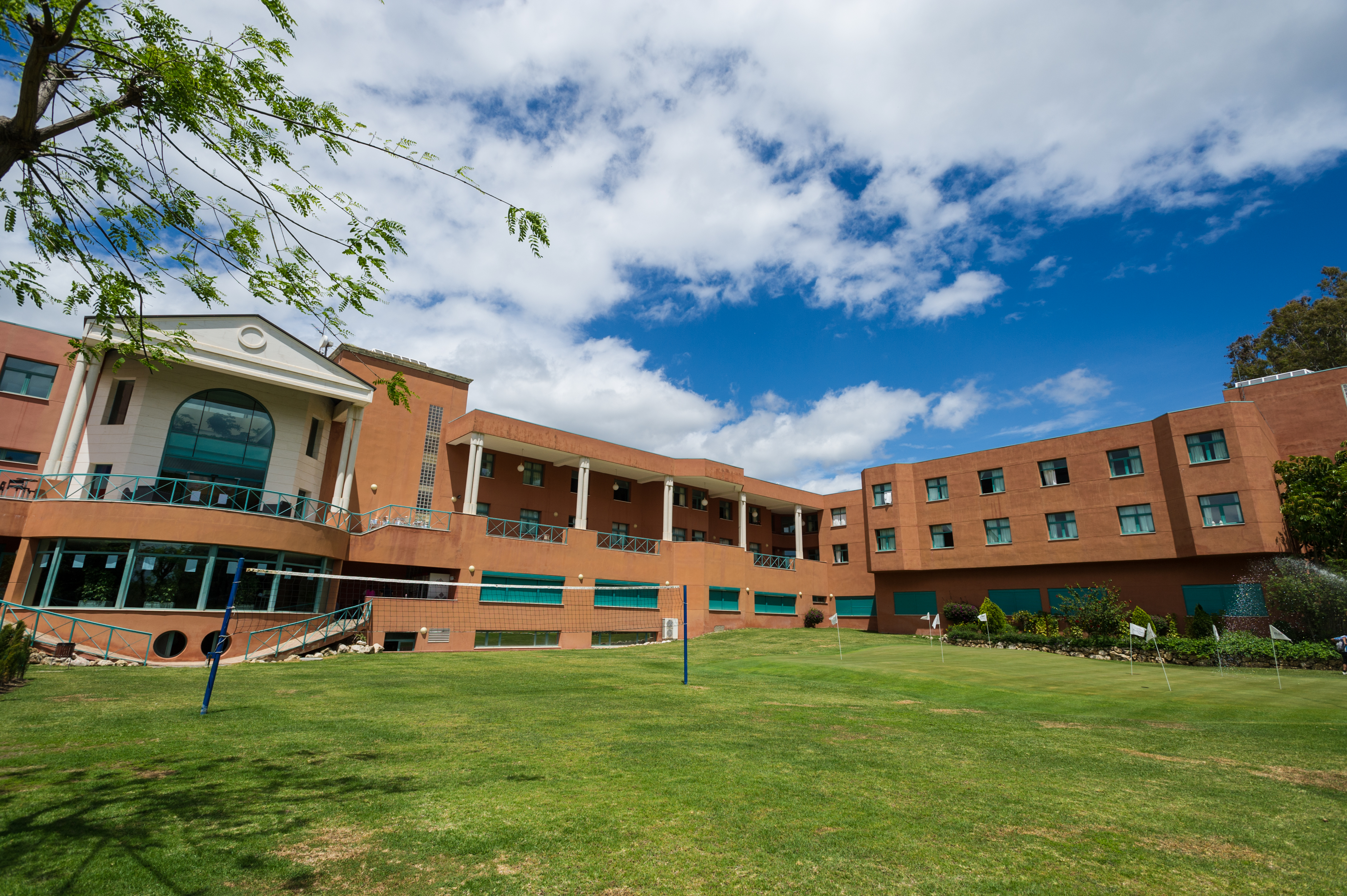 Partial view of campus